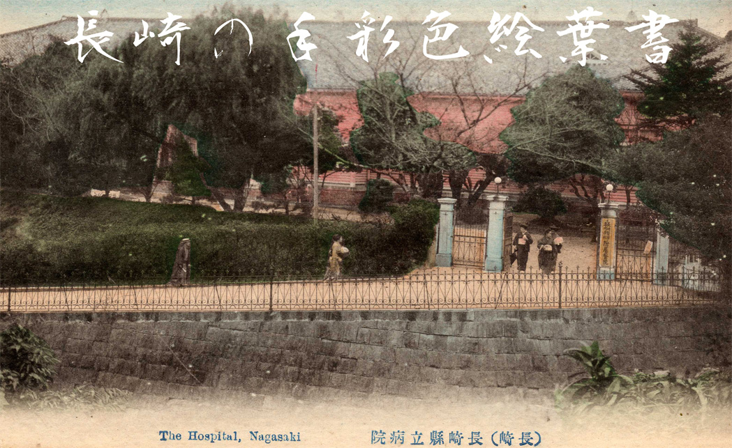 The Hospital, Nagasaki